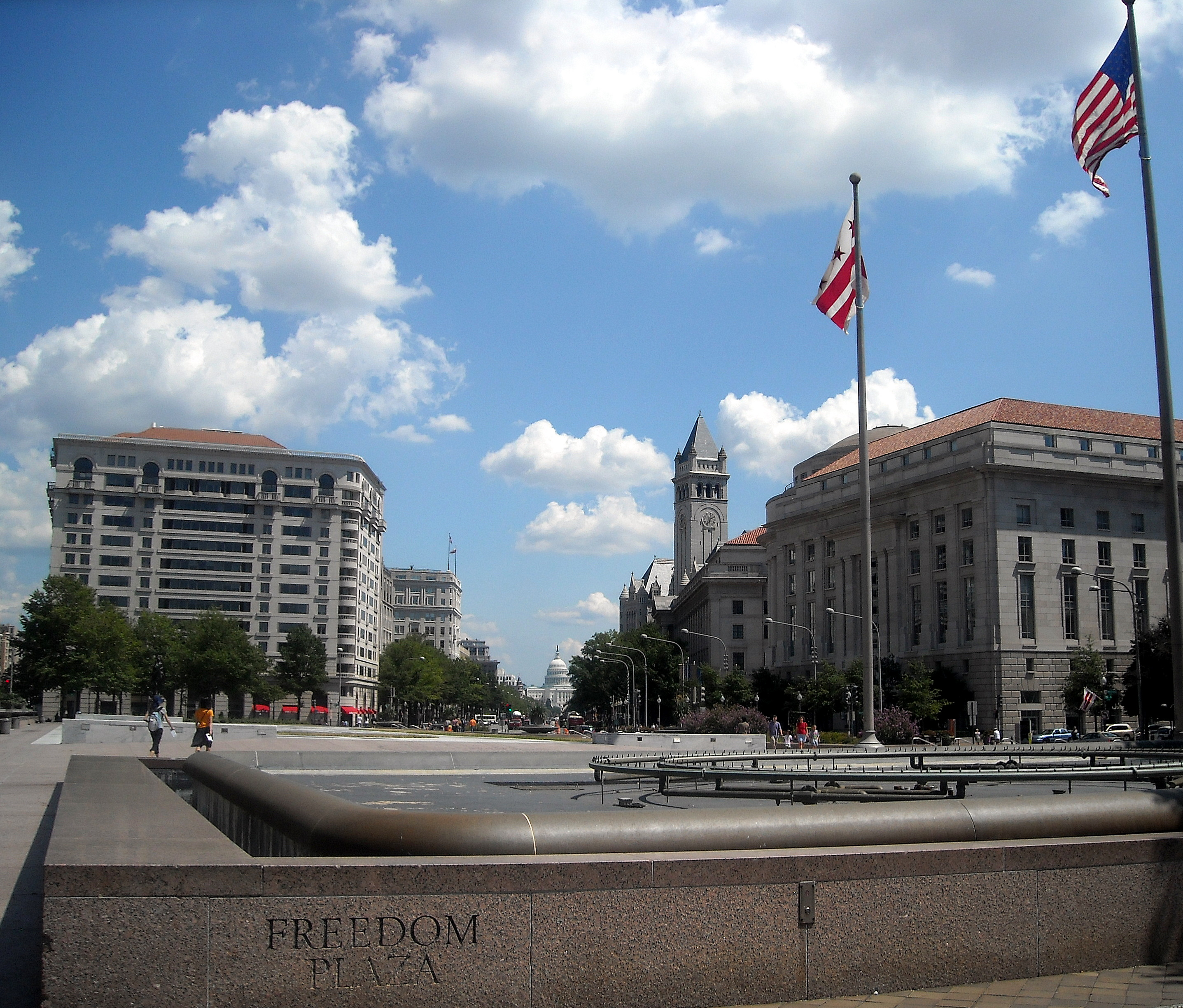 Freedom Plaza, originally known as Western Plaza, at 14th and Pennsylvania Avenue, NW in Washington, D.C.